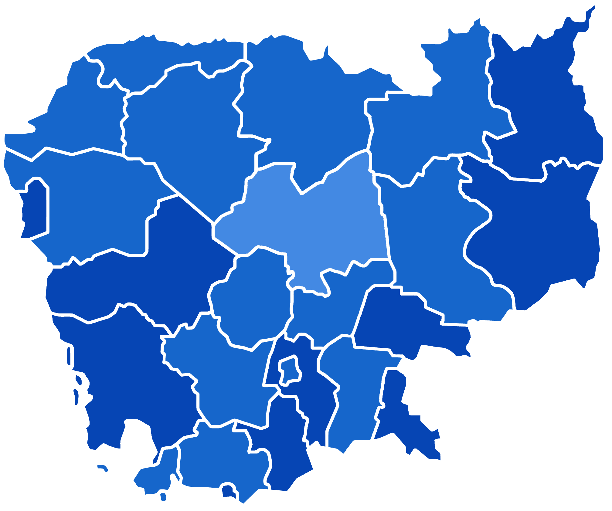 Map depicting the results of the 2018 Cambodian general election, shaded according to percentage of vote share.